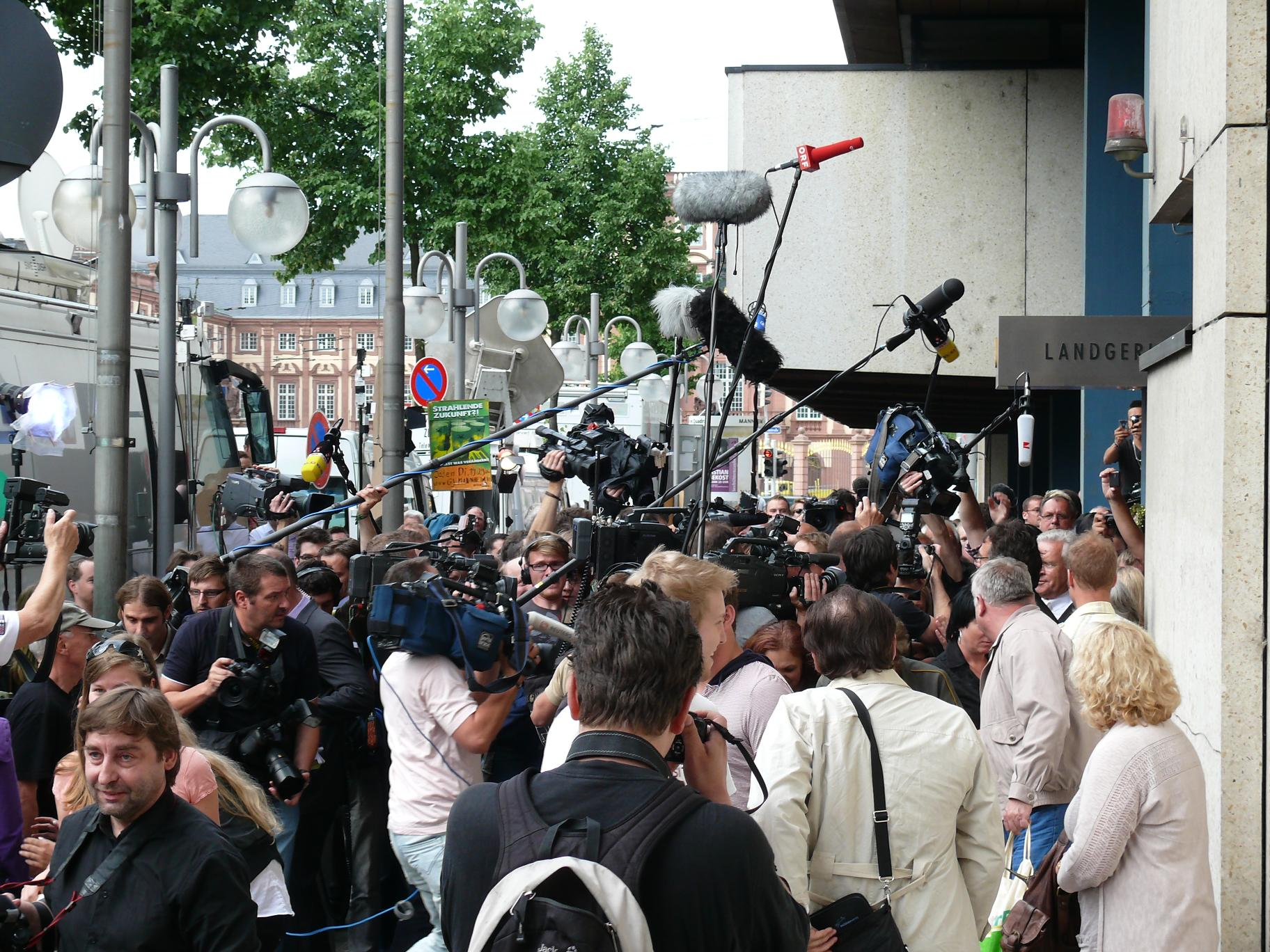 The press in front of the Mannheim Landgericht on the last day of the trial of weather man Jörg Kachelmann.